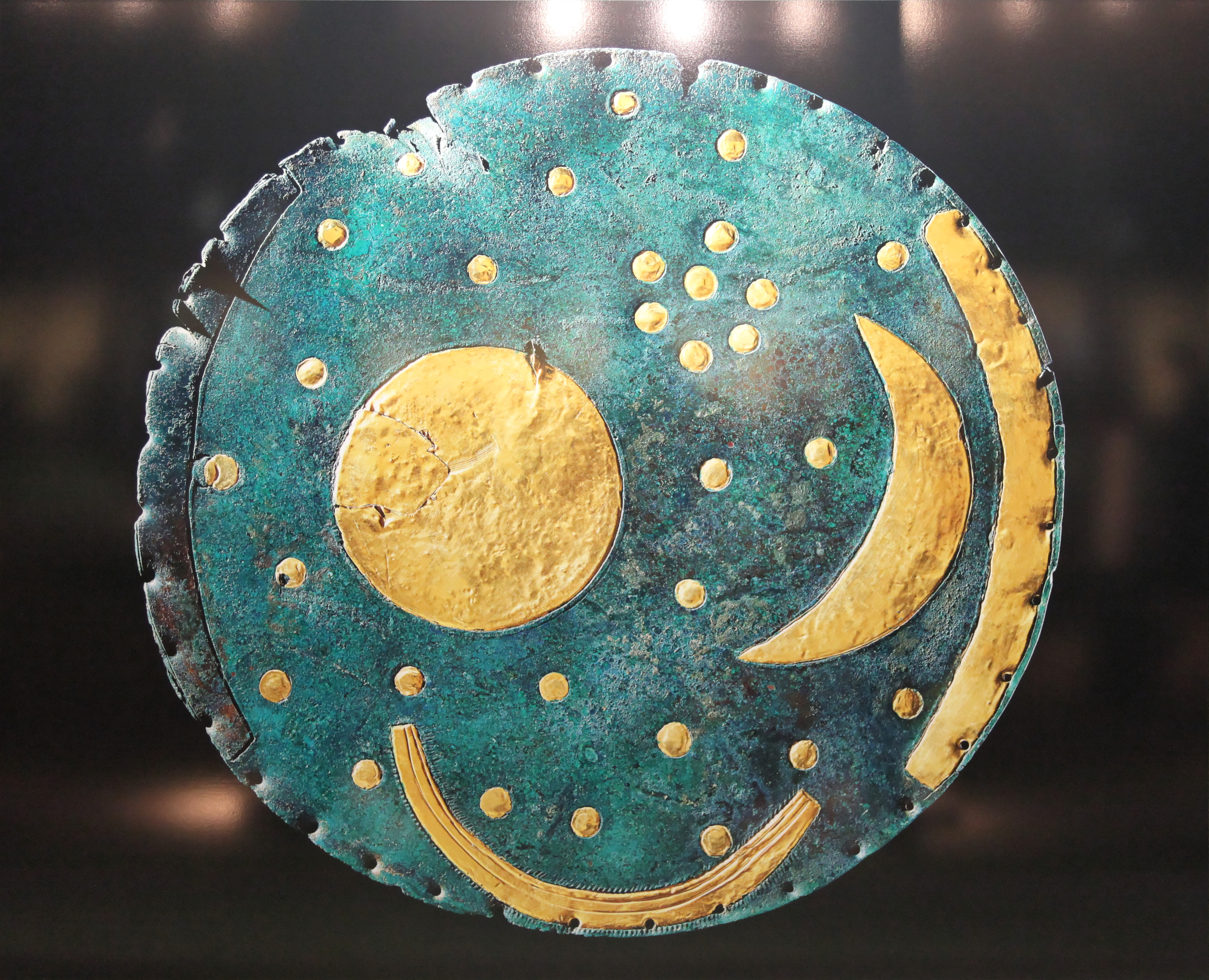 Photograph of the Nebra Sky Disk from exhibition "Der schöne Schein" at the Gasometer in Oberhausen, Germany.